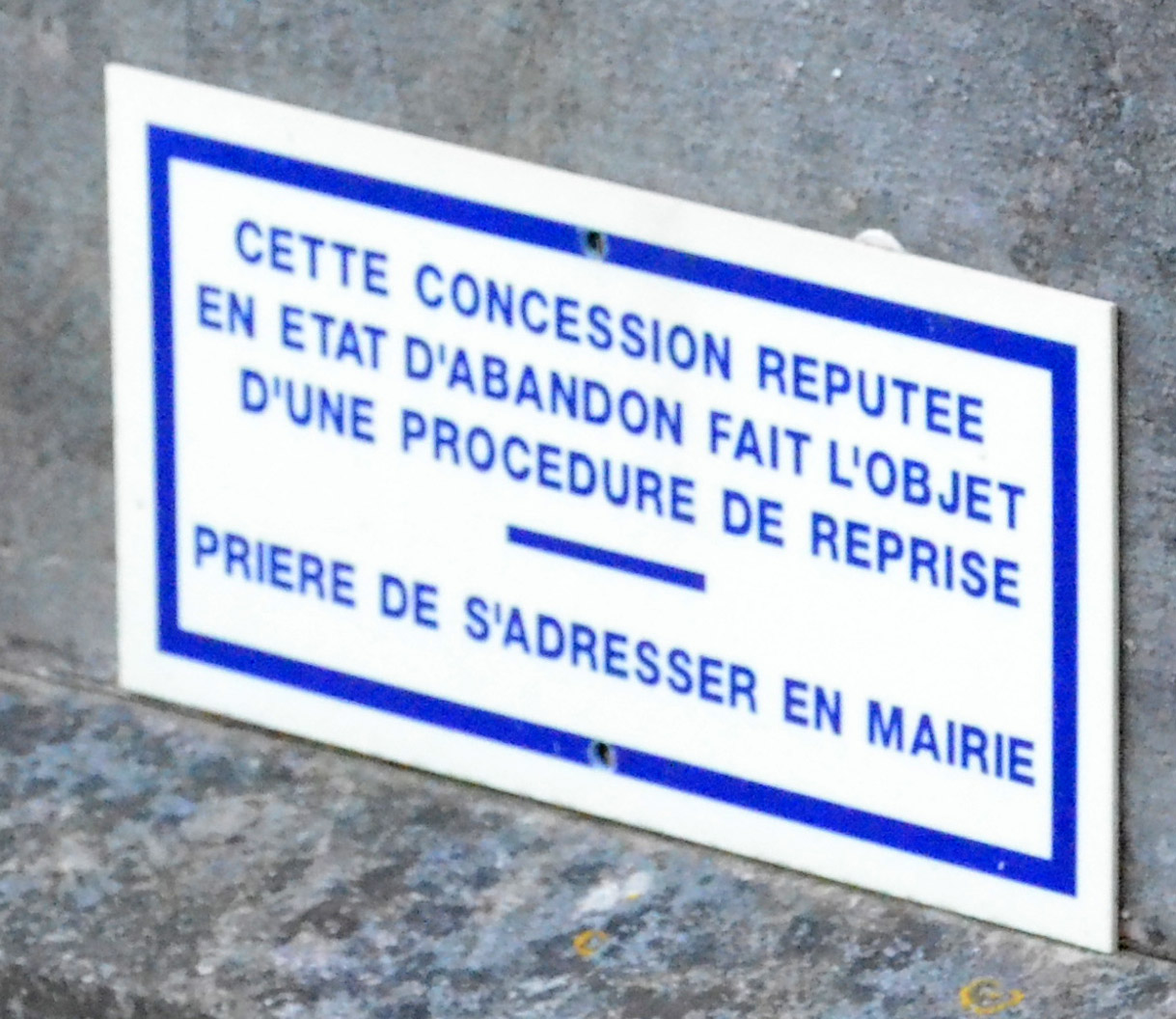 Small sign placed on a tombstone. It says: "This concession deemed derelict been a recovery procedure Please contact the town hall.".